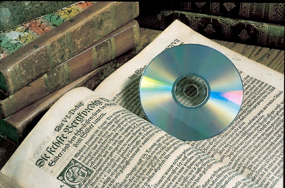 an old book and a DVD, both from the collections of The NTNU University Library, Trondheim, Norway